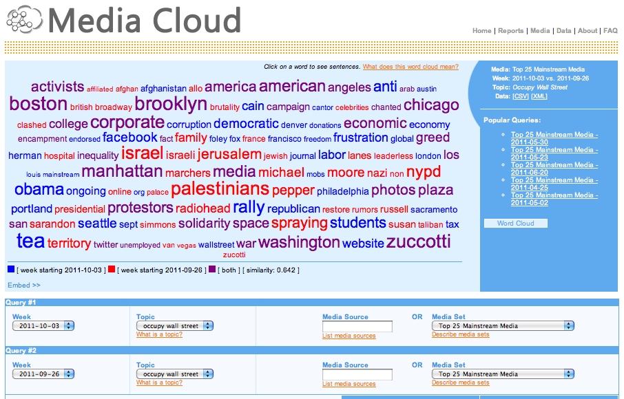 Screen grab of Media Cloud content analysis tool, showing top 25 U.S. news sources' coverage of "Occupy Wall Street" for the week of September 26, 2011, compared with week of October 3, 2011.